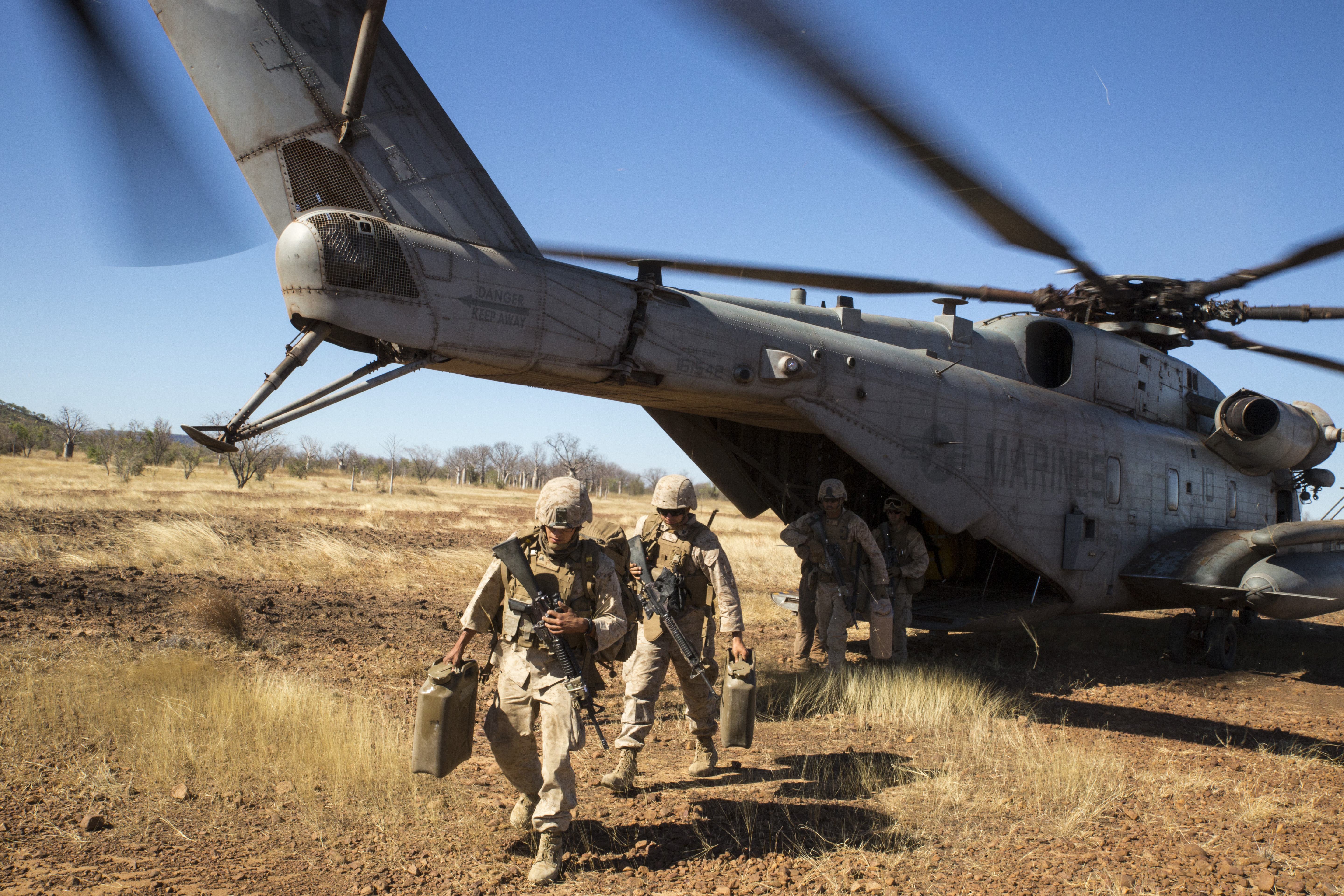 U.S. Marines depart a CH-53E Super Stallion Helicopter after a resupplying an outpost with fresh food and water August 16 at Bradshaw Field Training Area, Northern Territory, Australia, during Exercise Koolendong 14. The focus of KD-14 is to establish a bilateral expeditionary command and control element in austere conditions, directing all maneuver elements in execution of the exercise. The Marines are with 1st Battalion, 5th Marine Regiment and are currently deployed in part of the Marine Rotational Force Darwin. The rotational deployment of U.S. Marines affords an unprecedented combined training opportunity with our Australian allies, and improves interoperability with our forces. The CH-53E is assigned to HMH-463, which is the air combat element for the exercise. (Marine Corps Photo by Lance Cpl. Joey S. Holeman, Jr./ Released)